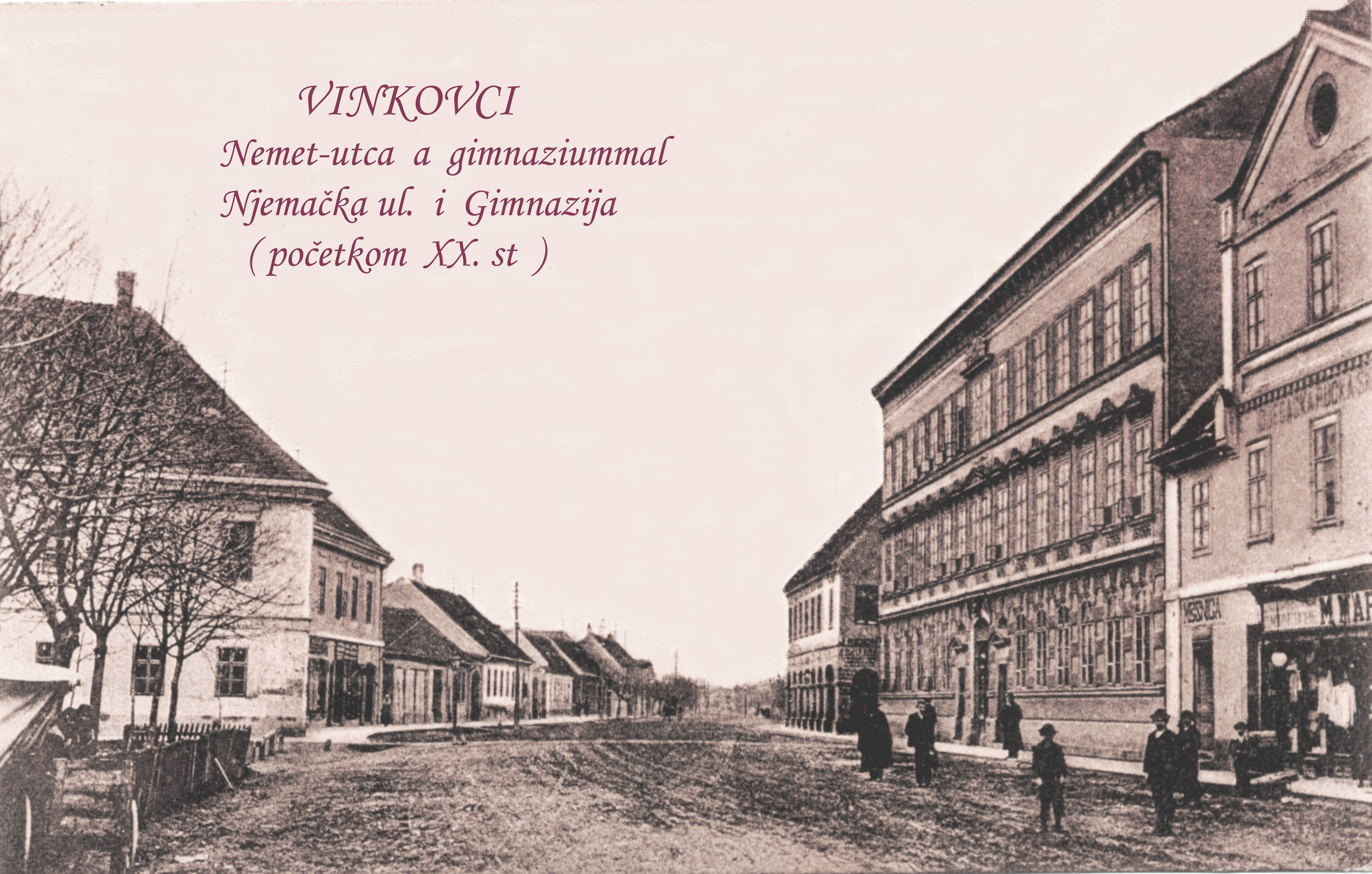 Njemačka street and Gymnasium in Vinkovci 1900